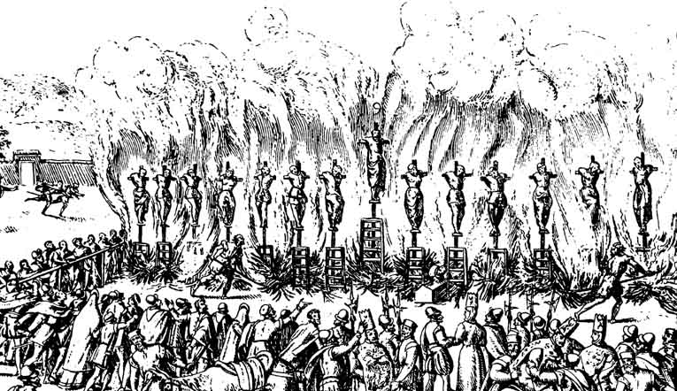 Contemporary illustration of the Auto-da-fé held at Valladolid Spain 21-05-1559